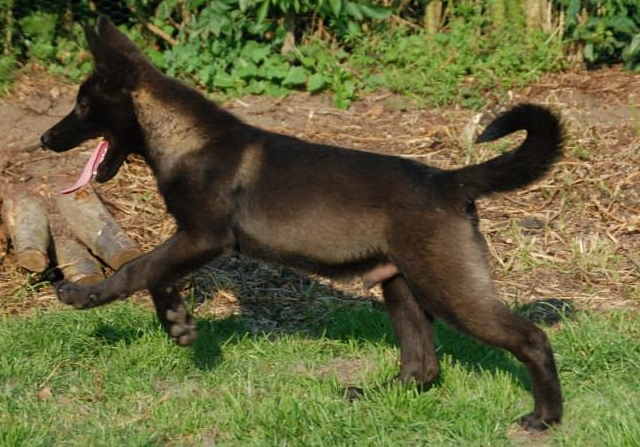 A black grey Tamaskan Puppy (Blufawn Gomez Adams)